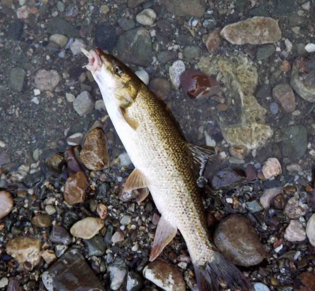 Endemic Barbus tyberinus collected in Farma river, Grosseto province, Tuscany, central Italy. Released immediately after the photo.